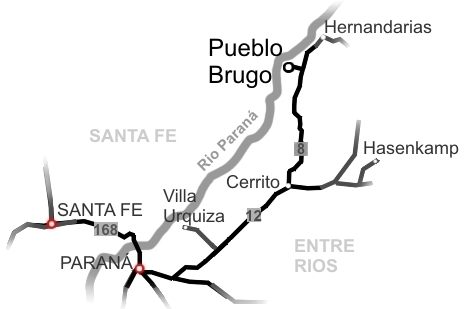 Includes access to the town in the province of Entre Rios